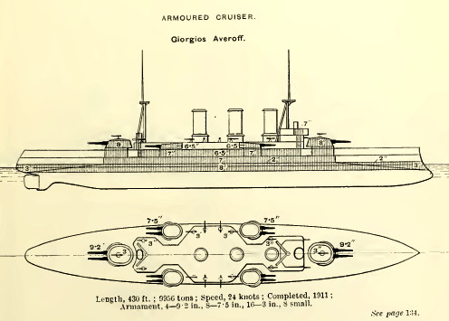 Right elevation and plan drawing of the Greek cruiser Georgios Averof